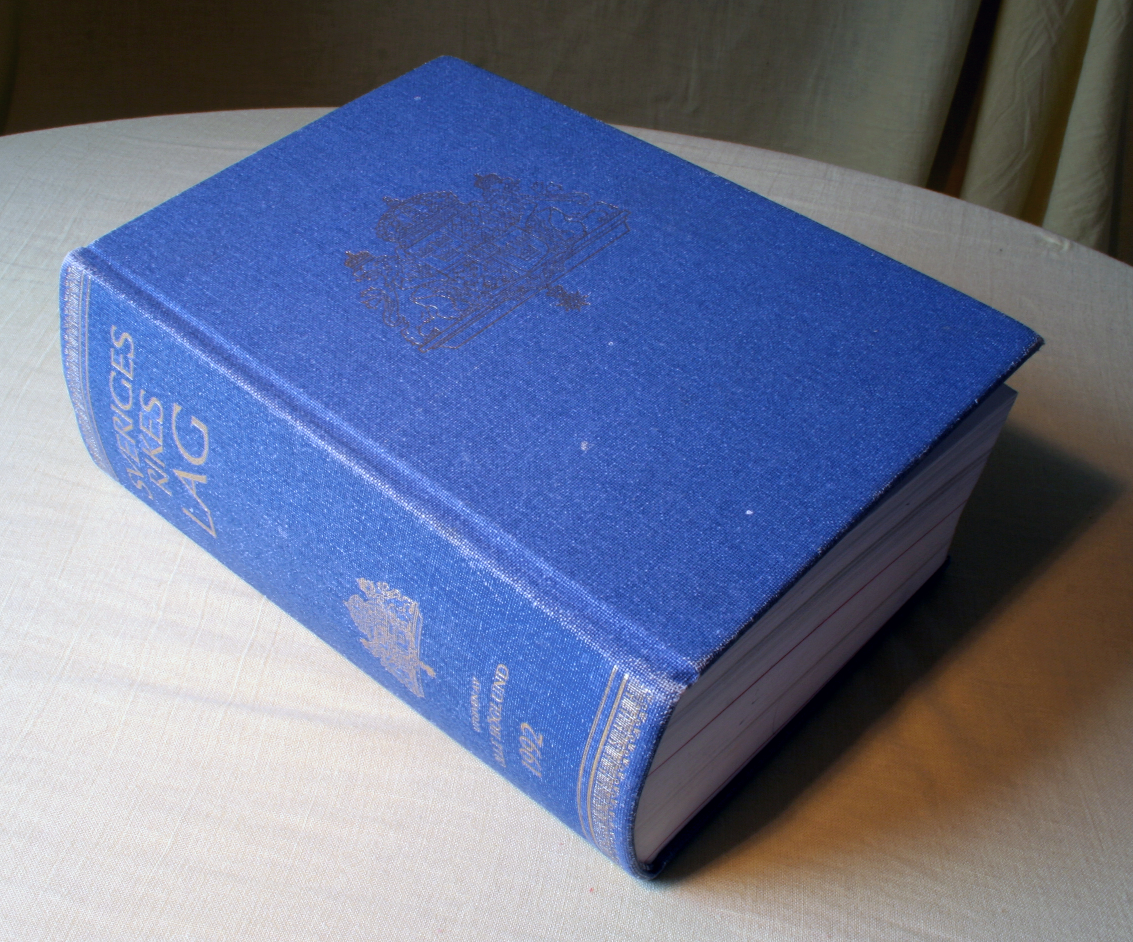 Sveriges rikes lag. The Swedish statute book, 1992.